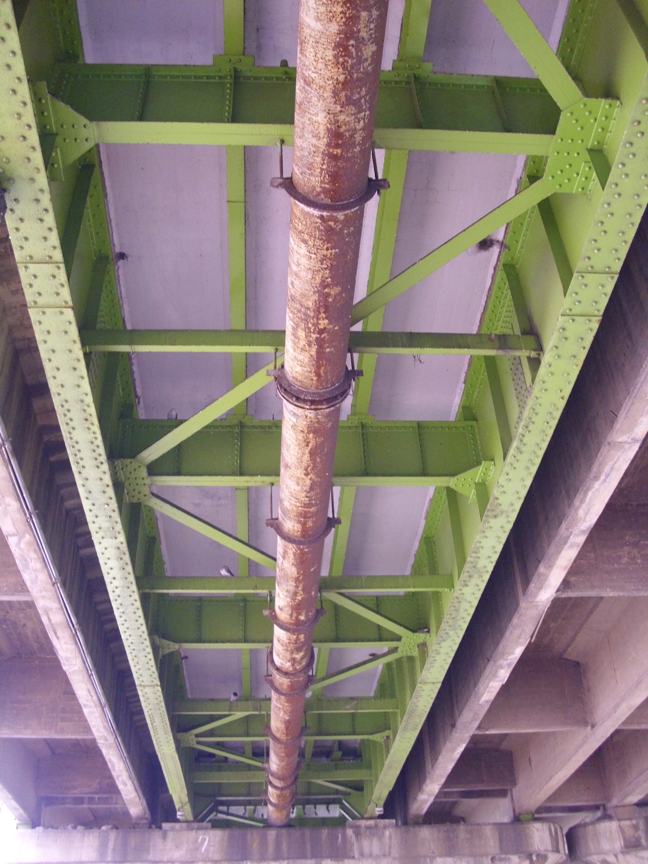 Taipei Zhongzheng Bridge (old name is Kawabatachō Bridge) Structure